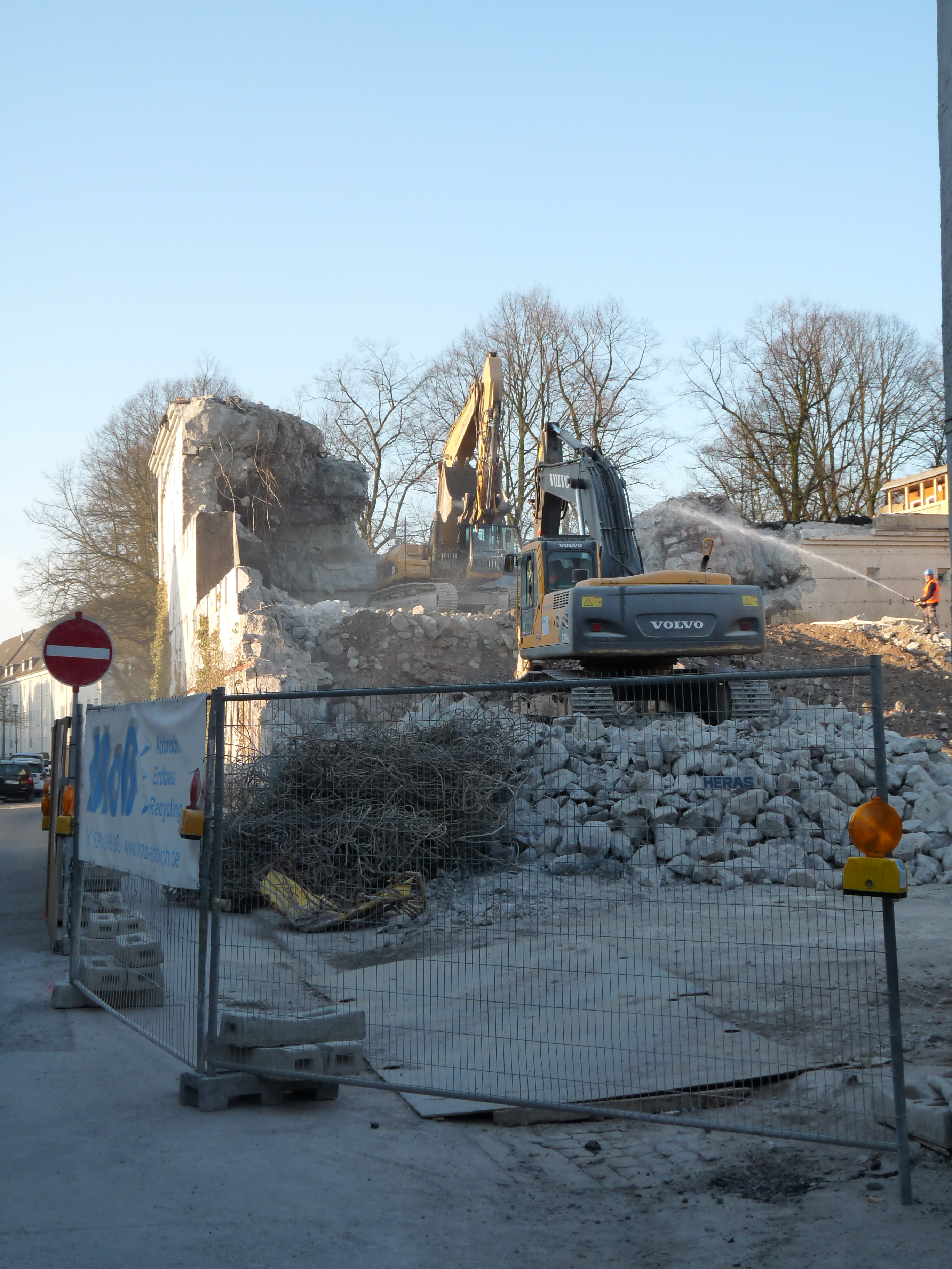 Hochbunker Ottostraße Münster: air raid shelter - demolition